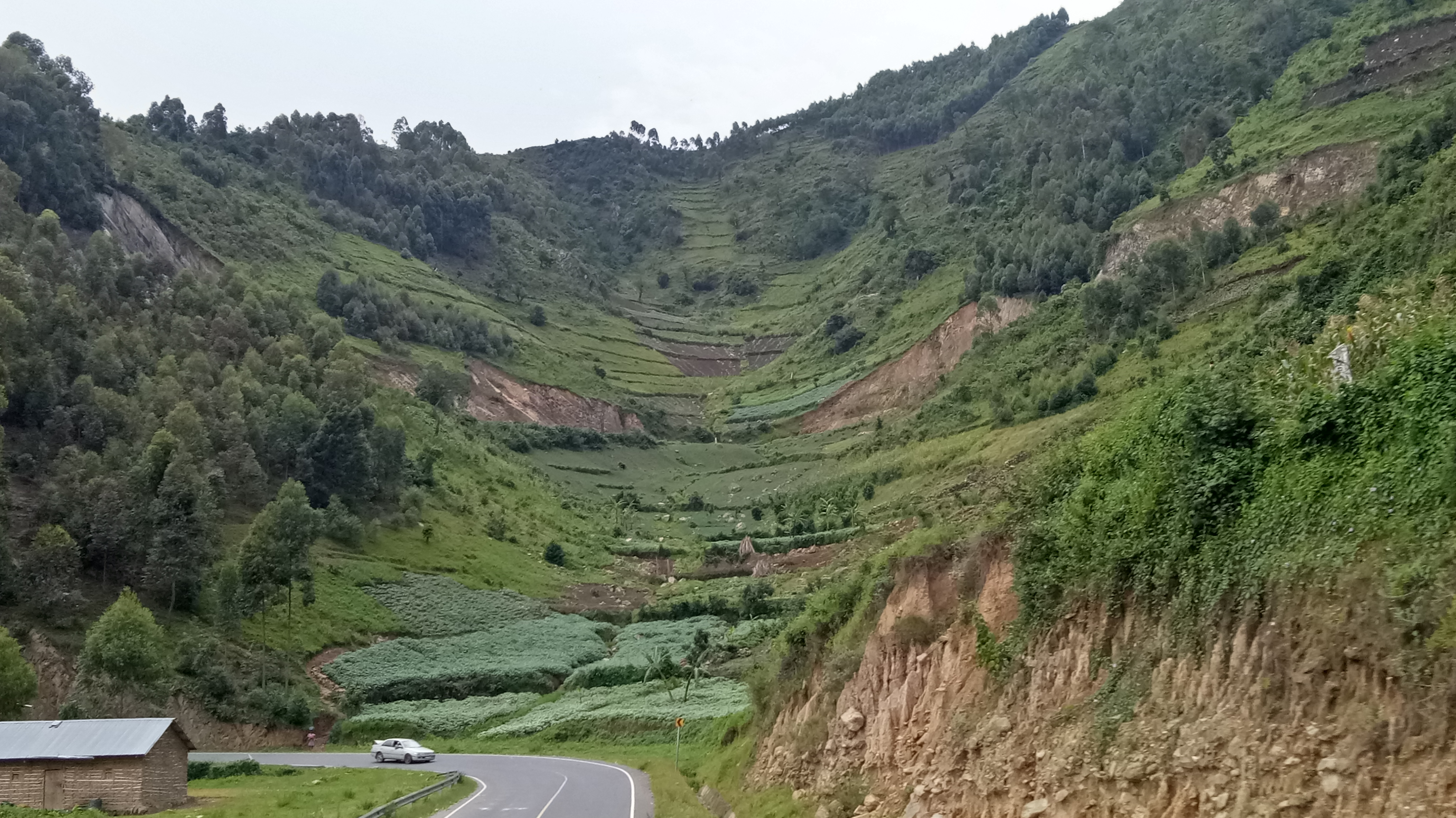 roadtrip in Uganda This is an image with the theme "Africa on the Move or Transport" from: Uganda